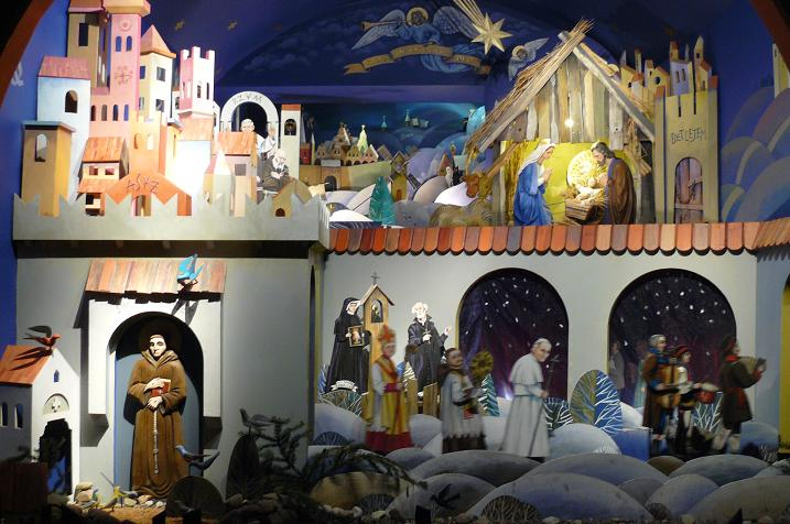 Nativity scen in Lomza.